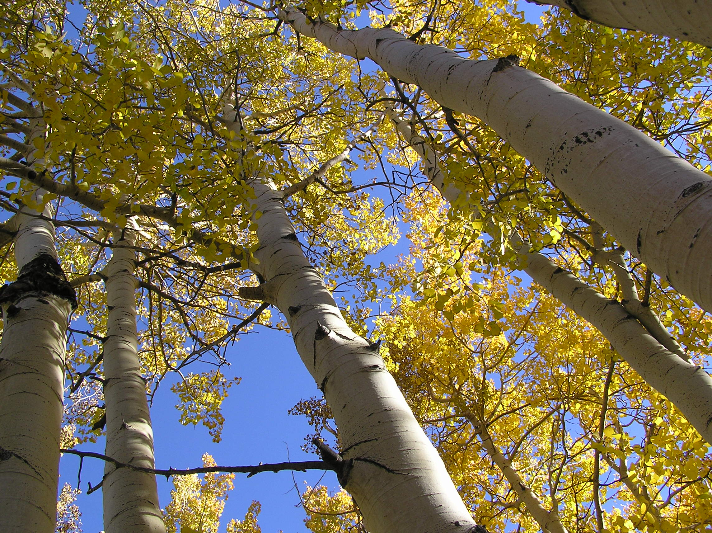 Quaking Aspens Populus tremuloides, Little Cottonwood Canyon, Salt Lake County, Utah